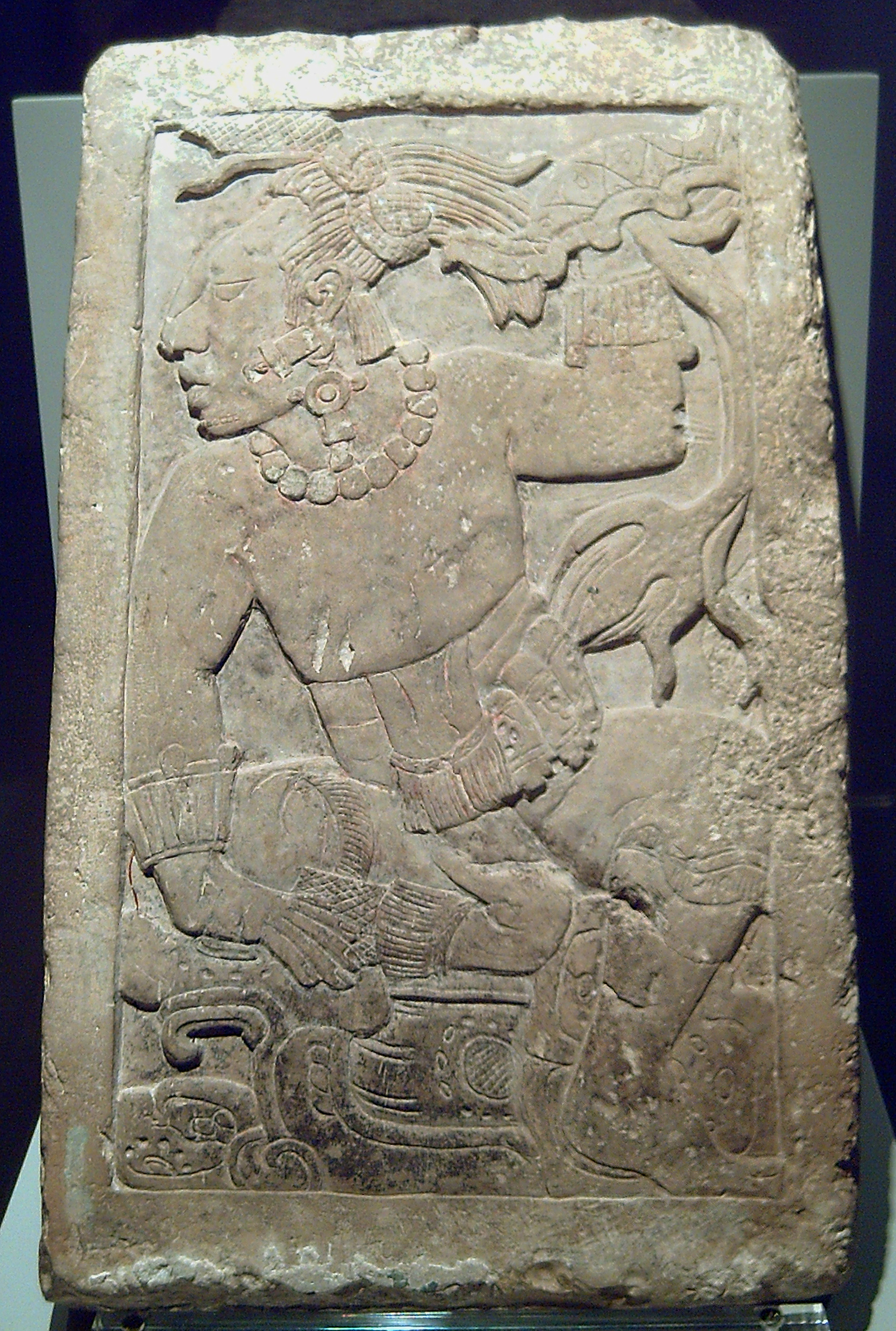 Bas-relief with red and black paint seams. Maya artwork from Palenque (Mexico) made in the Late Classic Period. It shows a bacab over an imix's head. It's one of the pieces that held the Palenque's throne at one of the rooms of the Palace's Central Courtyard.